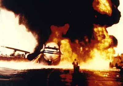 At approximately 70 knots during the takeoff roll, the compressor section of the left engine failed.